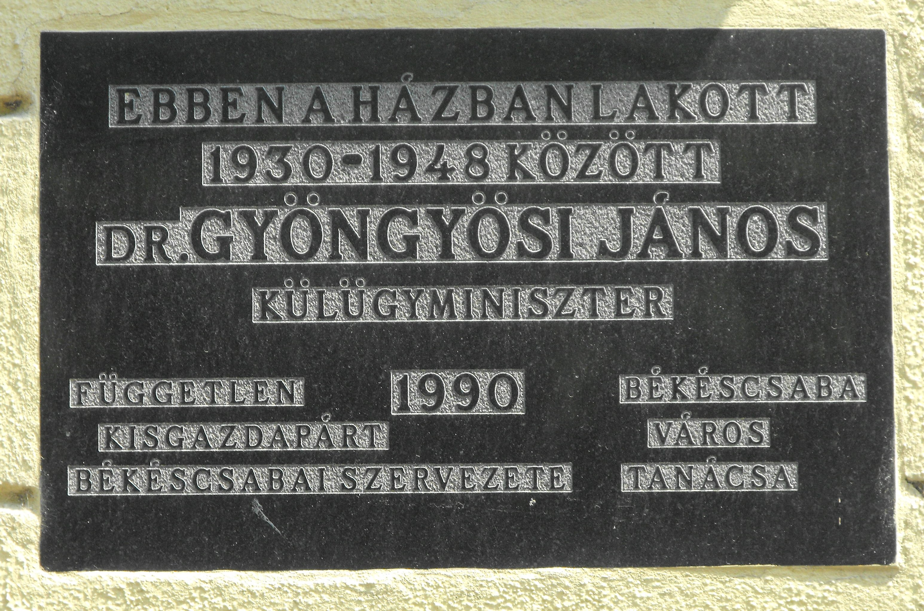 Memorial tablet of János Gyöngyösi, Hungarian Ministry of Foreign Affairs in Békécsaba, Hungary.